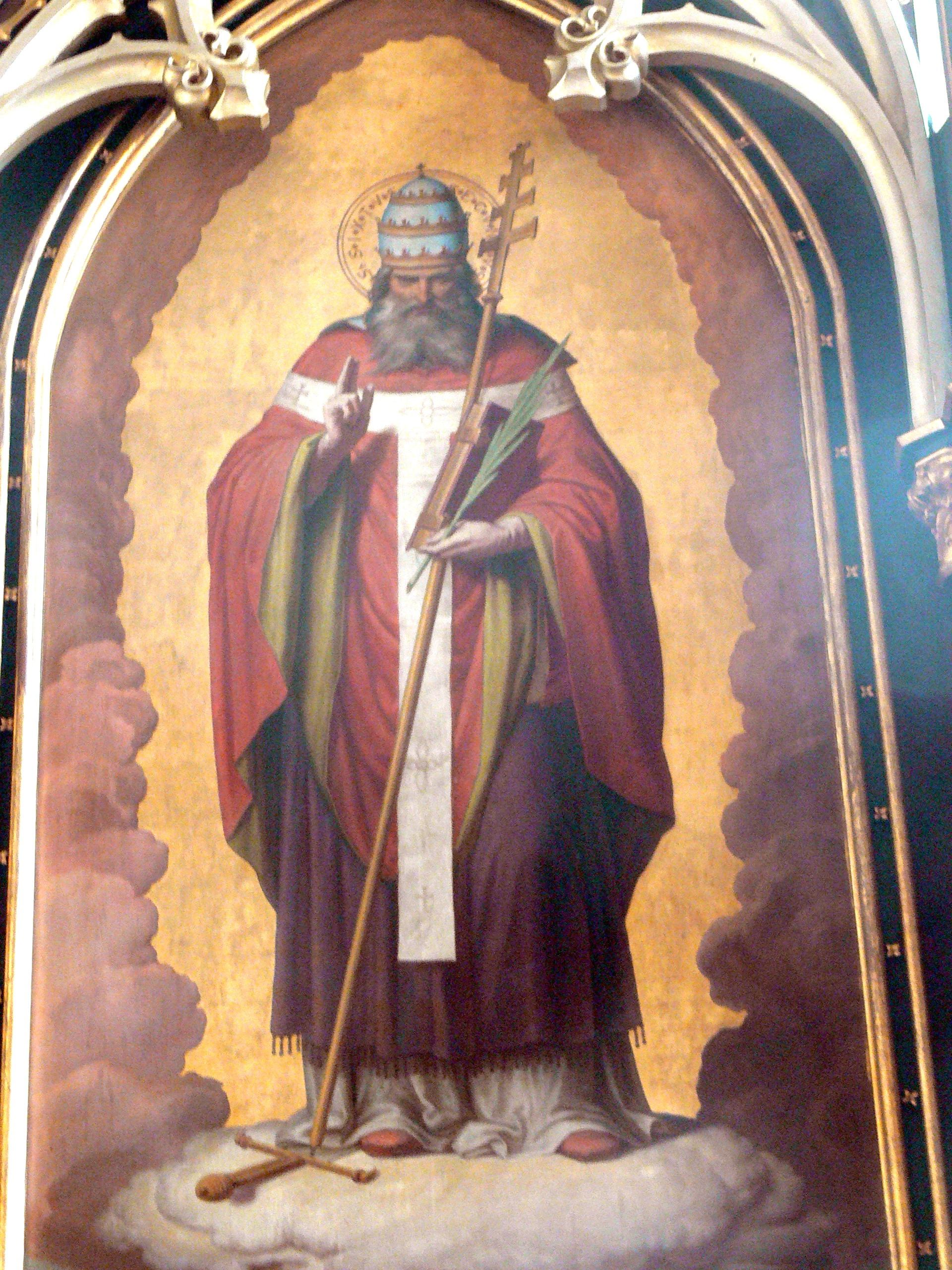 High altar - patron saint Pope Saint Sixtus II.